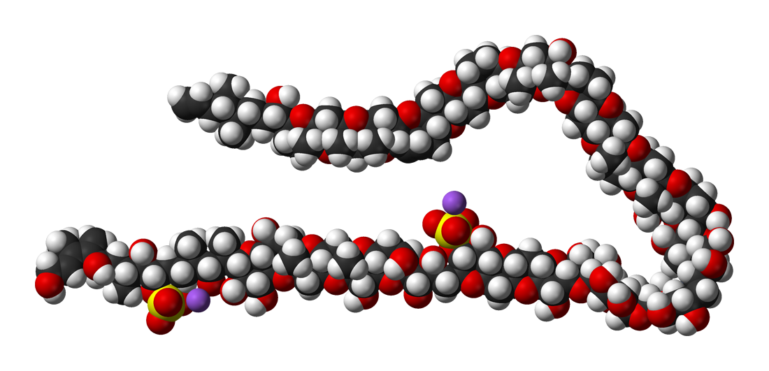 Space-filling model of the maitotoxin molecule